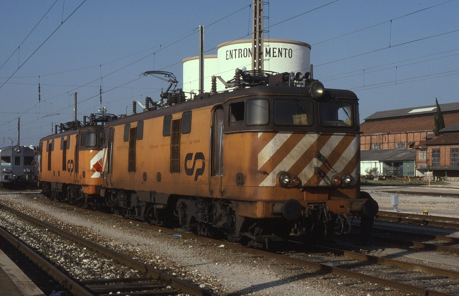 Seen stabled at Entroncamento is electric loco no. 2526 taken on 11 April 1999.